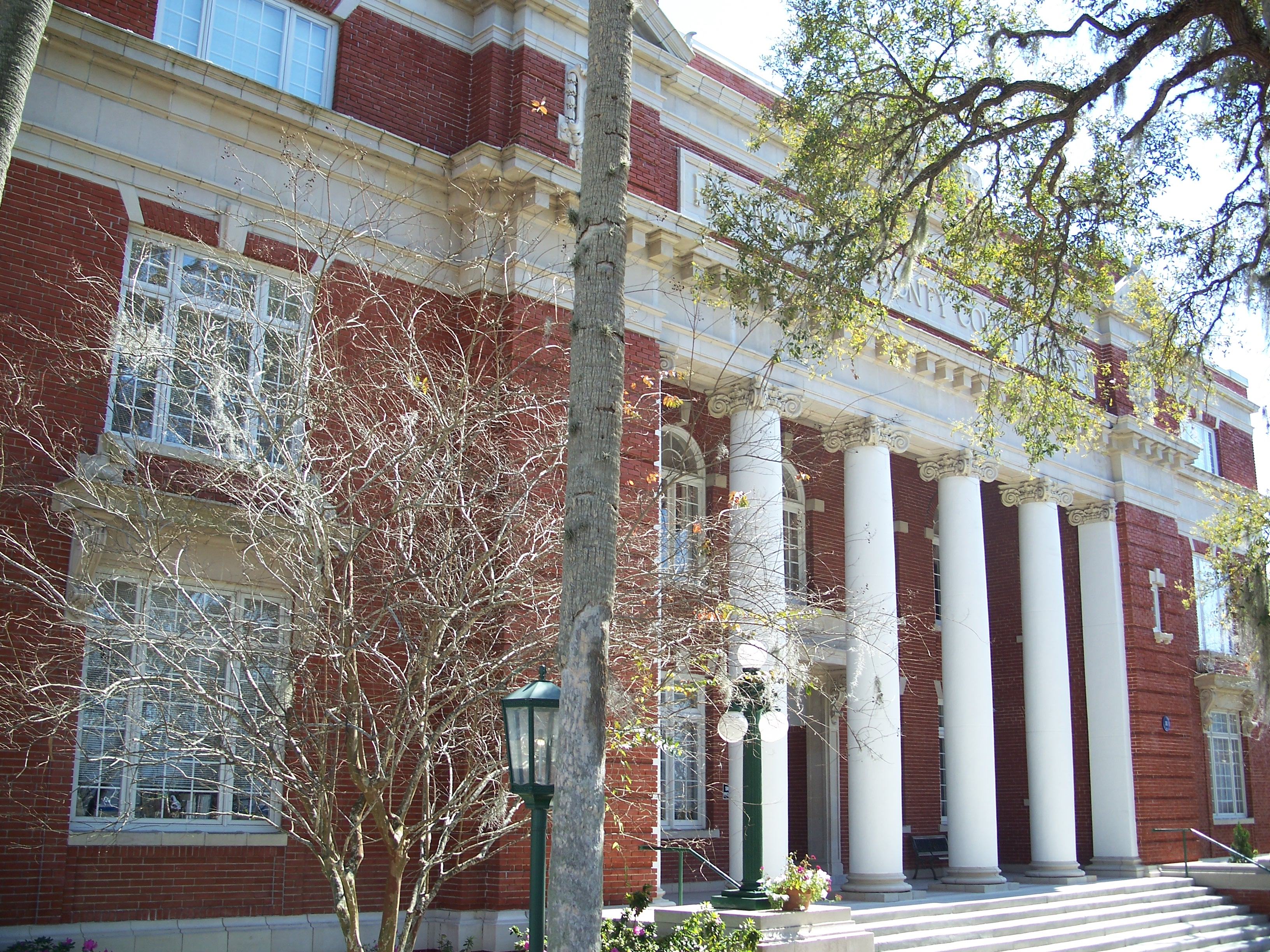 Hernando County Courthouse, in Brooksville, Florida